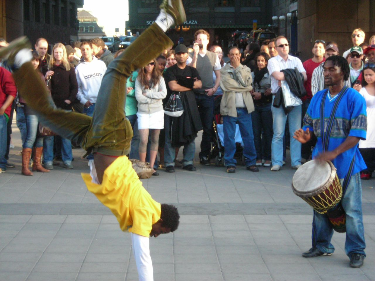 Brazilian Capoeira in Stockholm.